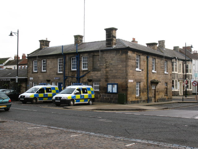 Stokesley Police Station The 19th century police station occupies the western end of the 'island' of buildings in the Market Place and is built of a sandstone from the nearby Cleveland Hills.